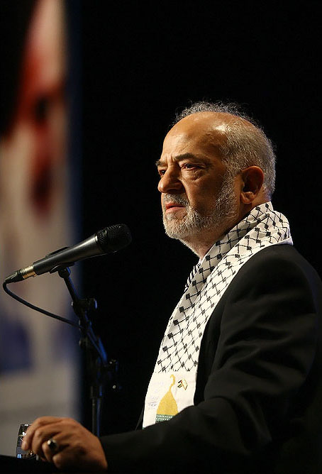 Ibrahim al-Jaafari in World Conference On Women And Islamic Awakening, Tehran.